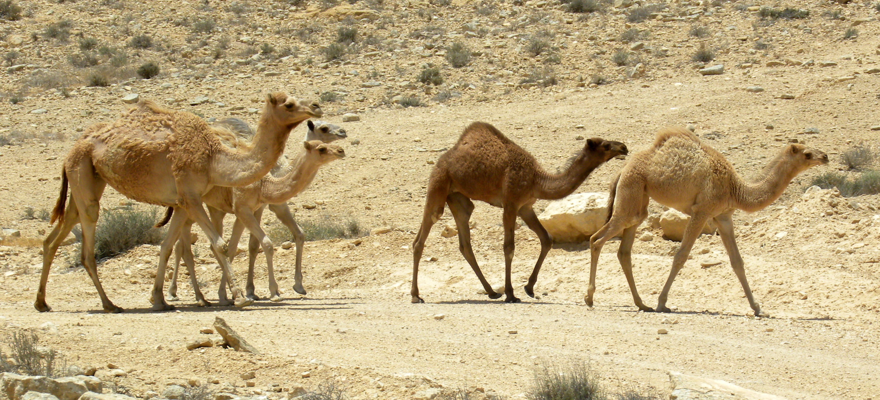 Dromedaries in the Negev, Israel.